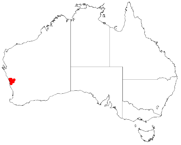 Conostylis dielsii occurrence data from Australasian Virtual Herbarium downloaded 12 May 2017